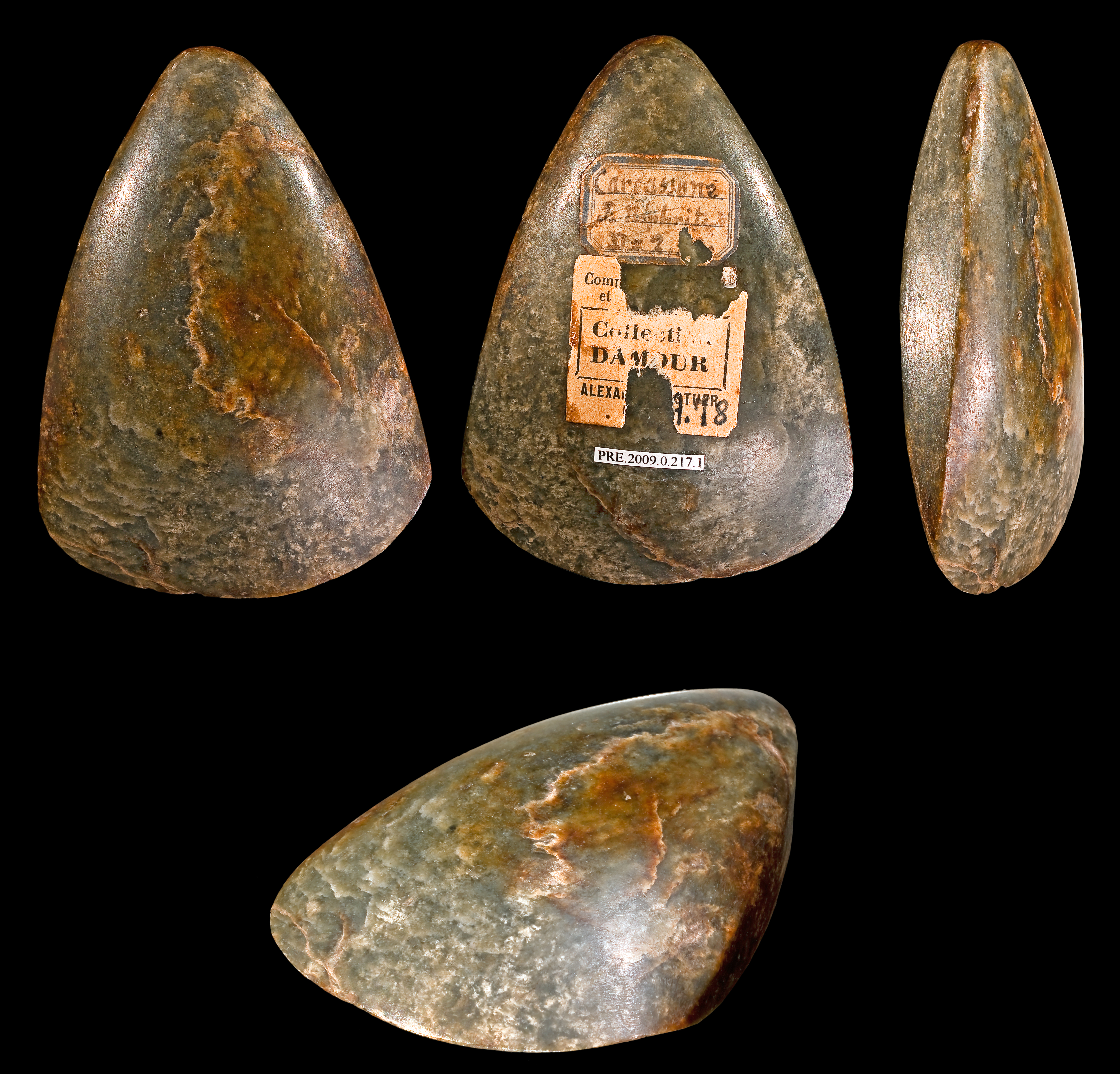 Different views of the same specimen. Different views of the same specimen.